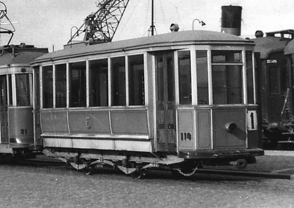 TKR tram trailer no. 110 in Turku, Finland